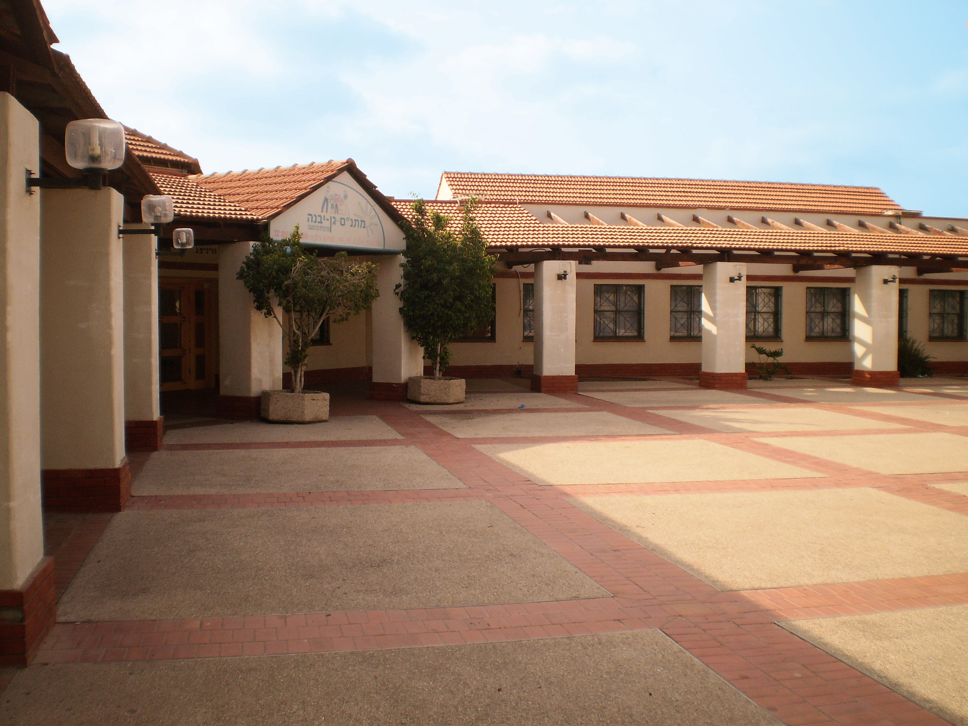 Gan Yavne - Matnas (מתנ"ס)